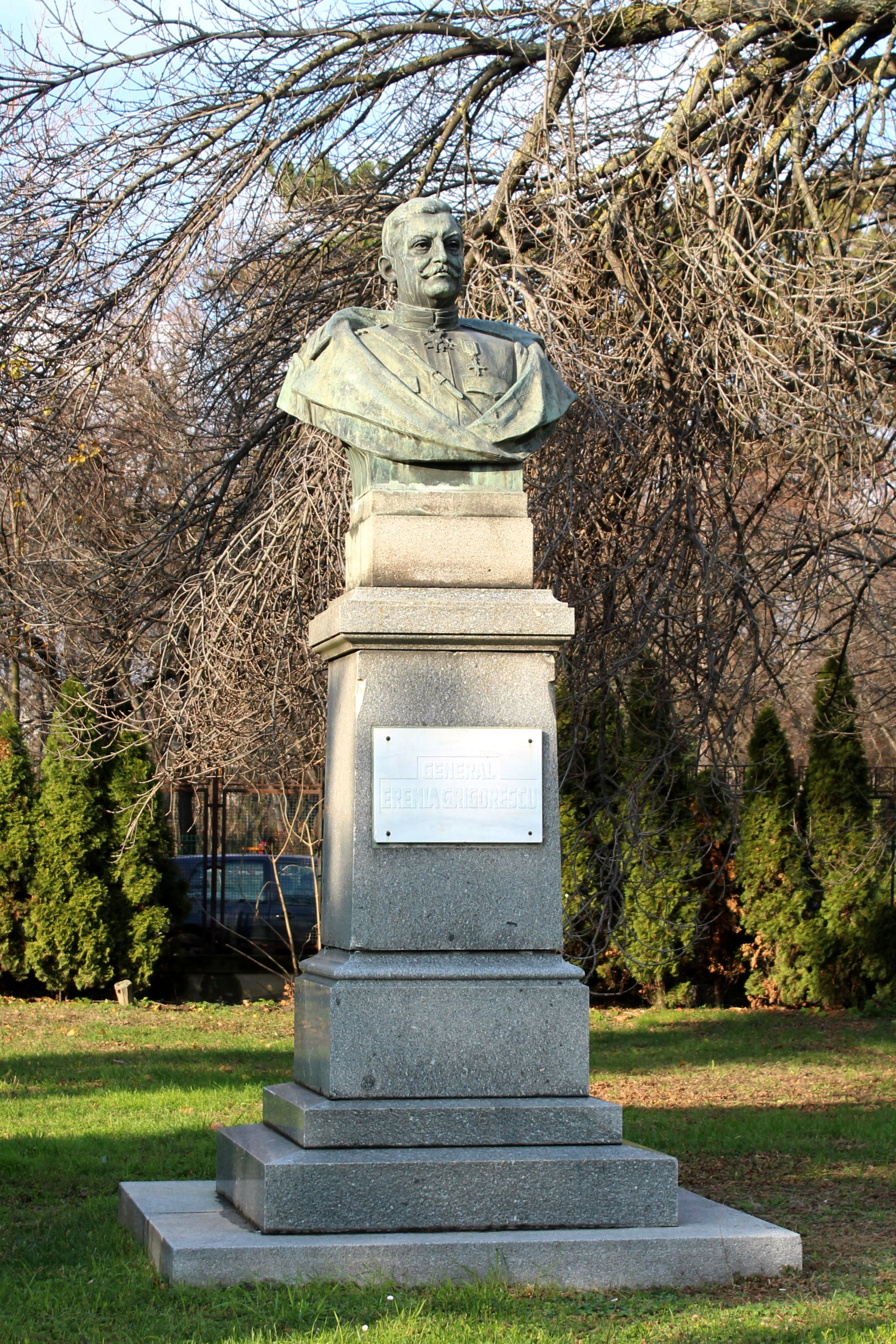 Bronze bust of General Eremia Grigorescu in Timisoara, Romania. Created 1928.